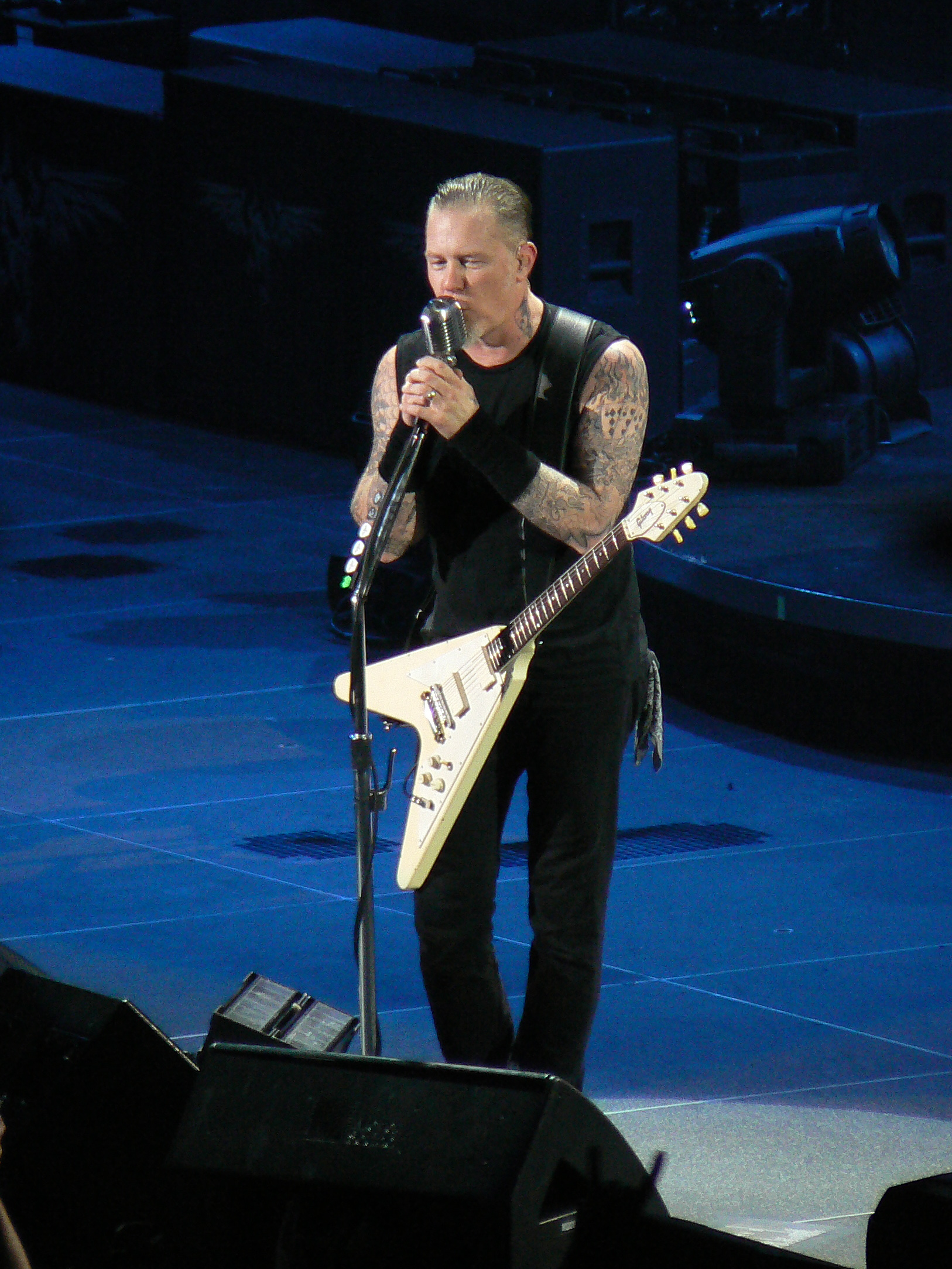 James Hetfield of Metallica